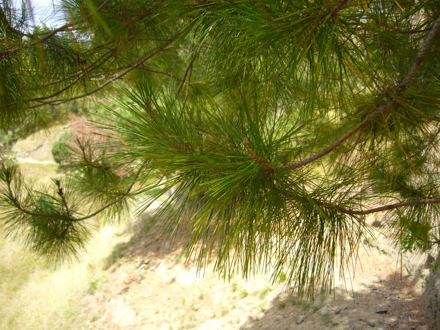 Pinus greggii in Eastwoodhill Arboretum, Ngatapa, Gisborne, New Zealand detail of branches with needles picture taken by Wilma Verburg, 2009/01/22 nl: Pinus greggii in Eastwoodhill Arboretum, Ngatapa, Gisborne, New Zealand detail van takken met naalden foto van Wilma Verburg, 2009/01/22 Image info Location/Date Eastwoodhill Arboretum, Ngatapa, Gisborne, New Zealand, 2009/01/22 Taken with Panasonic Lumix FX3 Original picture 2816 x 2112 pixels Photographer Wilma Verburg Conditions Please inform the photographer before using this image outside Wikimedia. Licensing